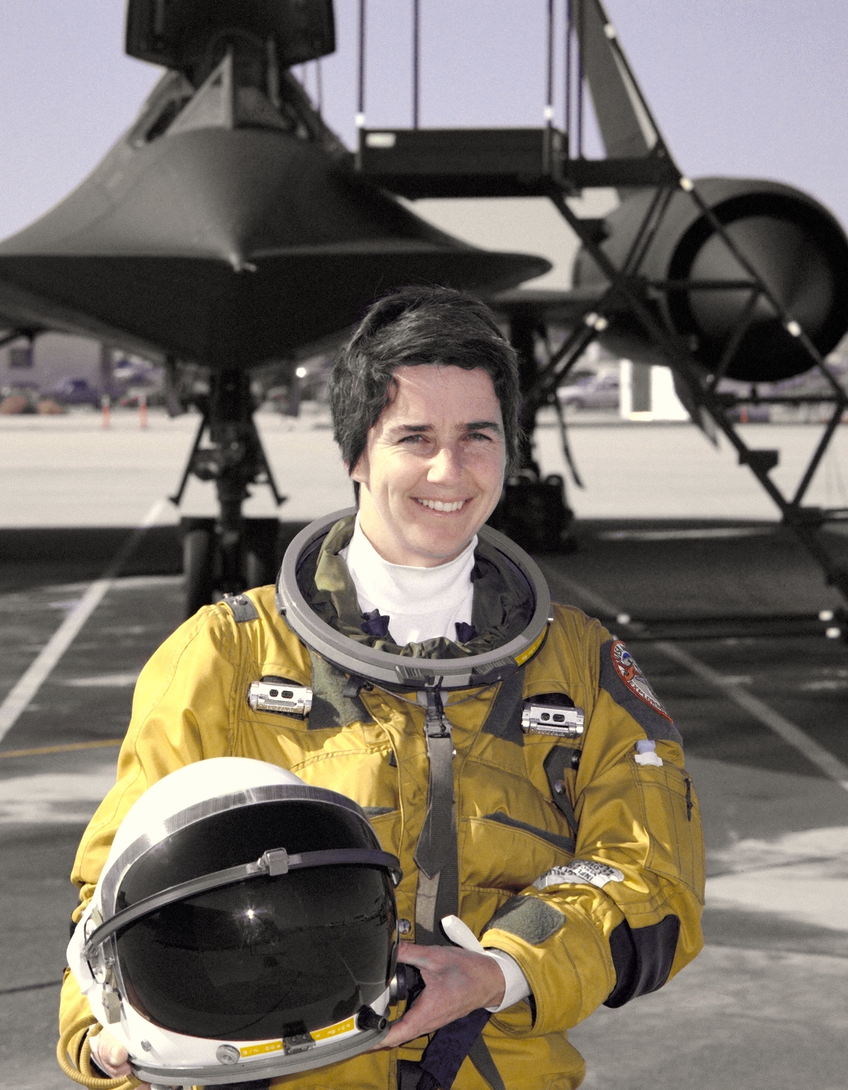 Marta Bohn-Meyer Image [1] from NASA, and therefore in the public domain